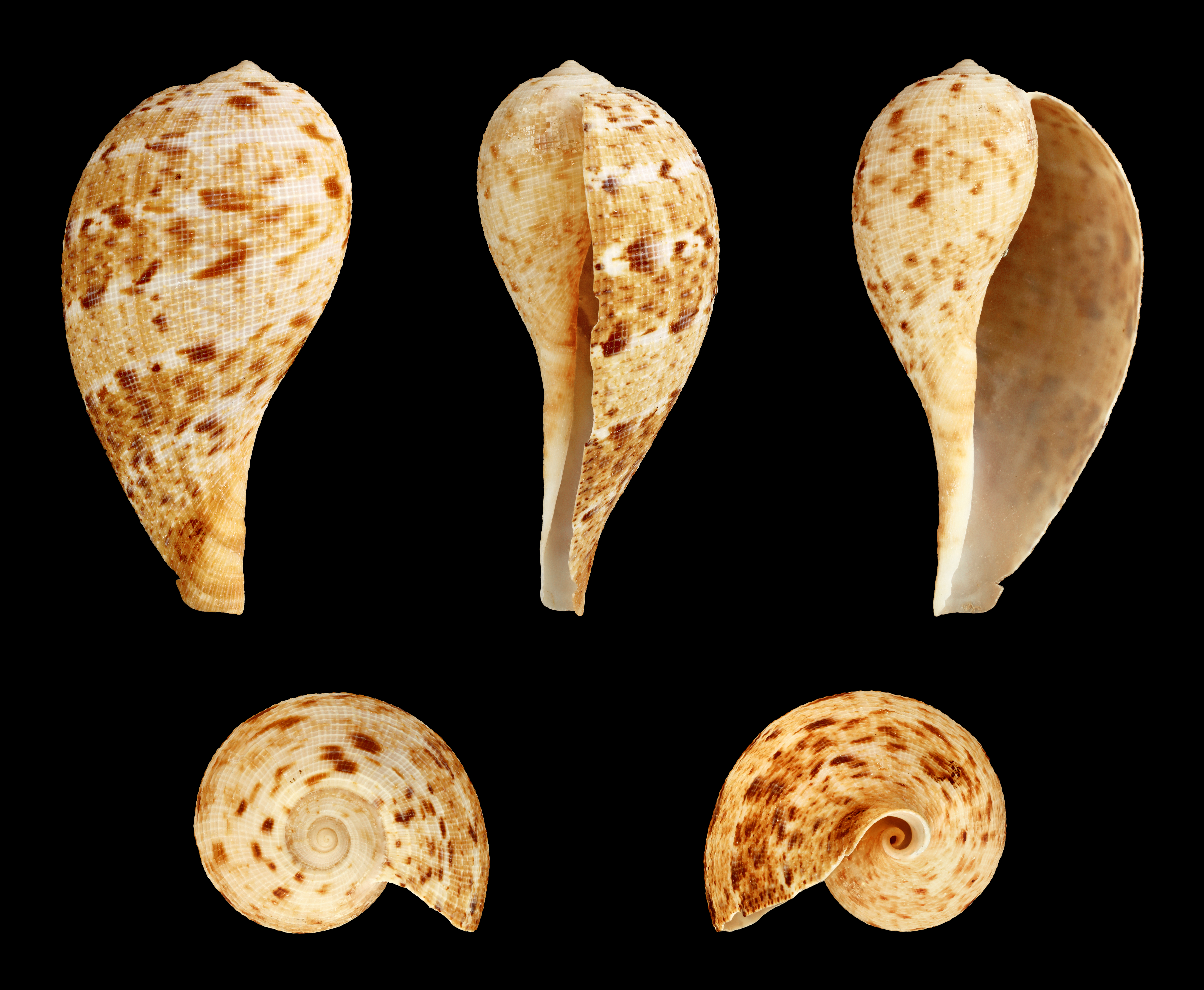 True Fig Snail; Length 7.1 cm; Originating from Japan; Shell of own collection, therefore not geocoded. Dorsal, lateral (right side), ventral, back, and front view.